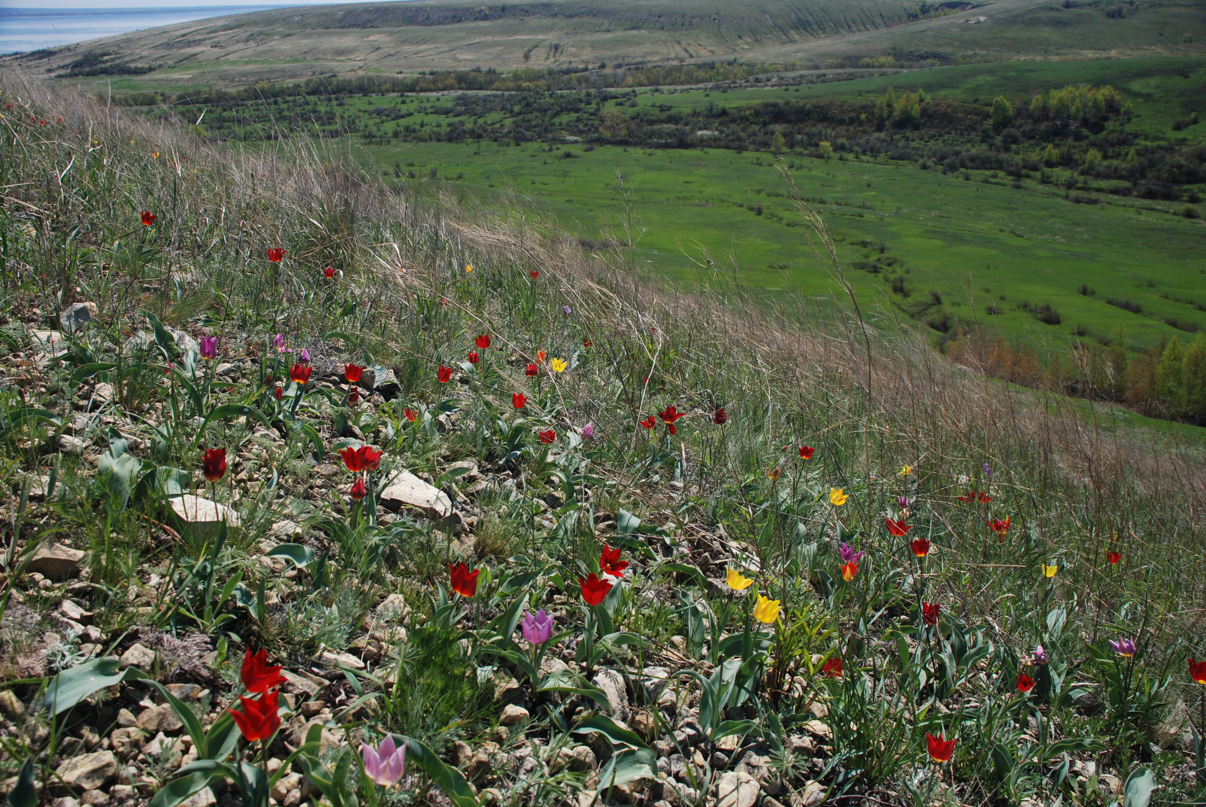 Tulipas gesneriana in Krivtsovskoy beam. Nature Park Shcherbakovskaya, Kamyshin district of the Volgograd Region.